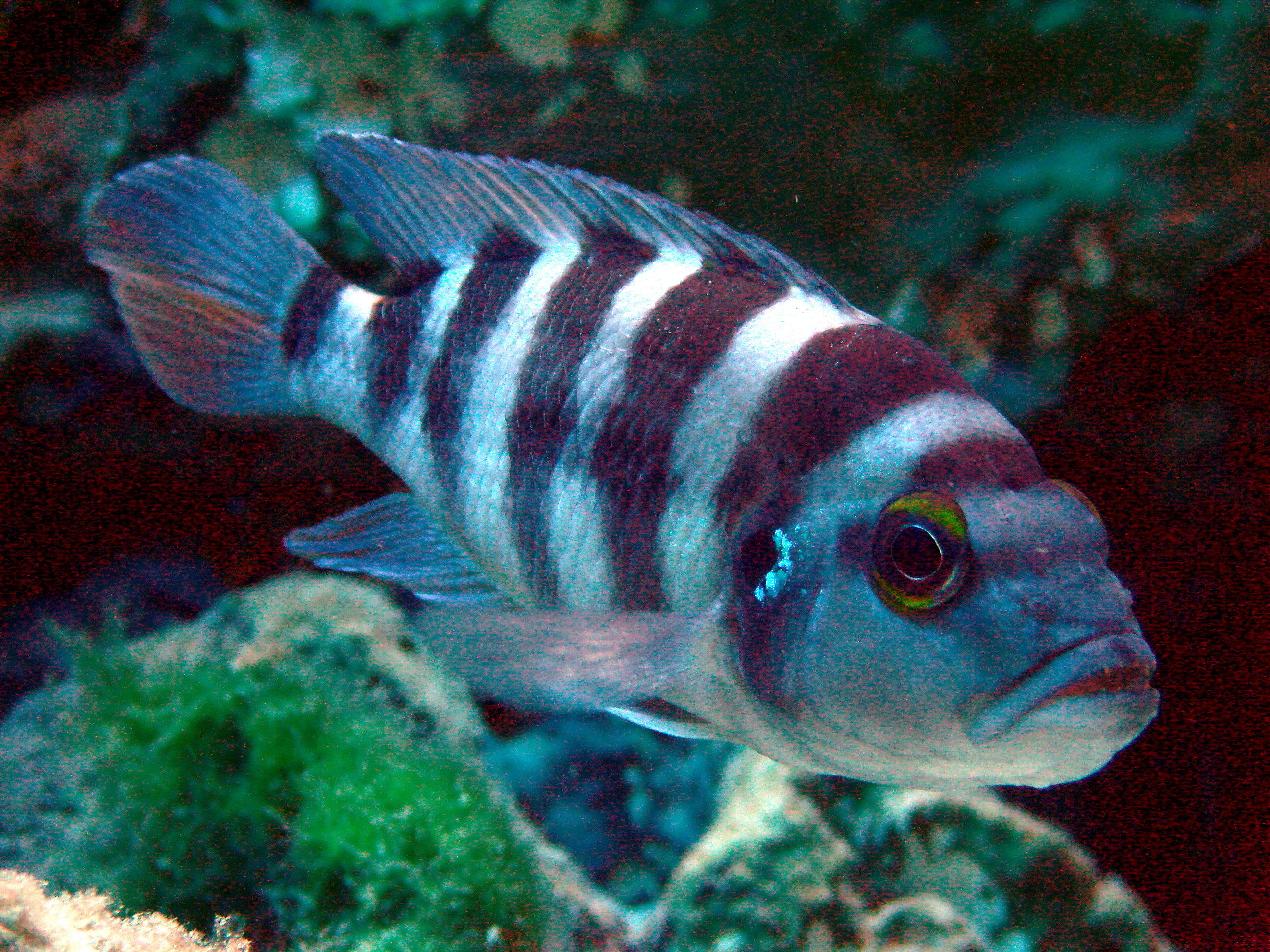 Picture taken in the zoo of Wrocław (Poland): Neolamprologus sexfasciatus (Trewavas & Poll, 1952)